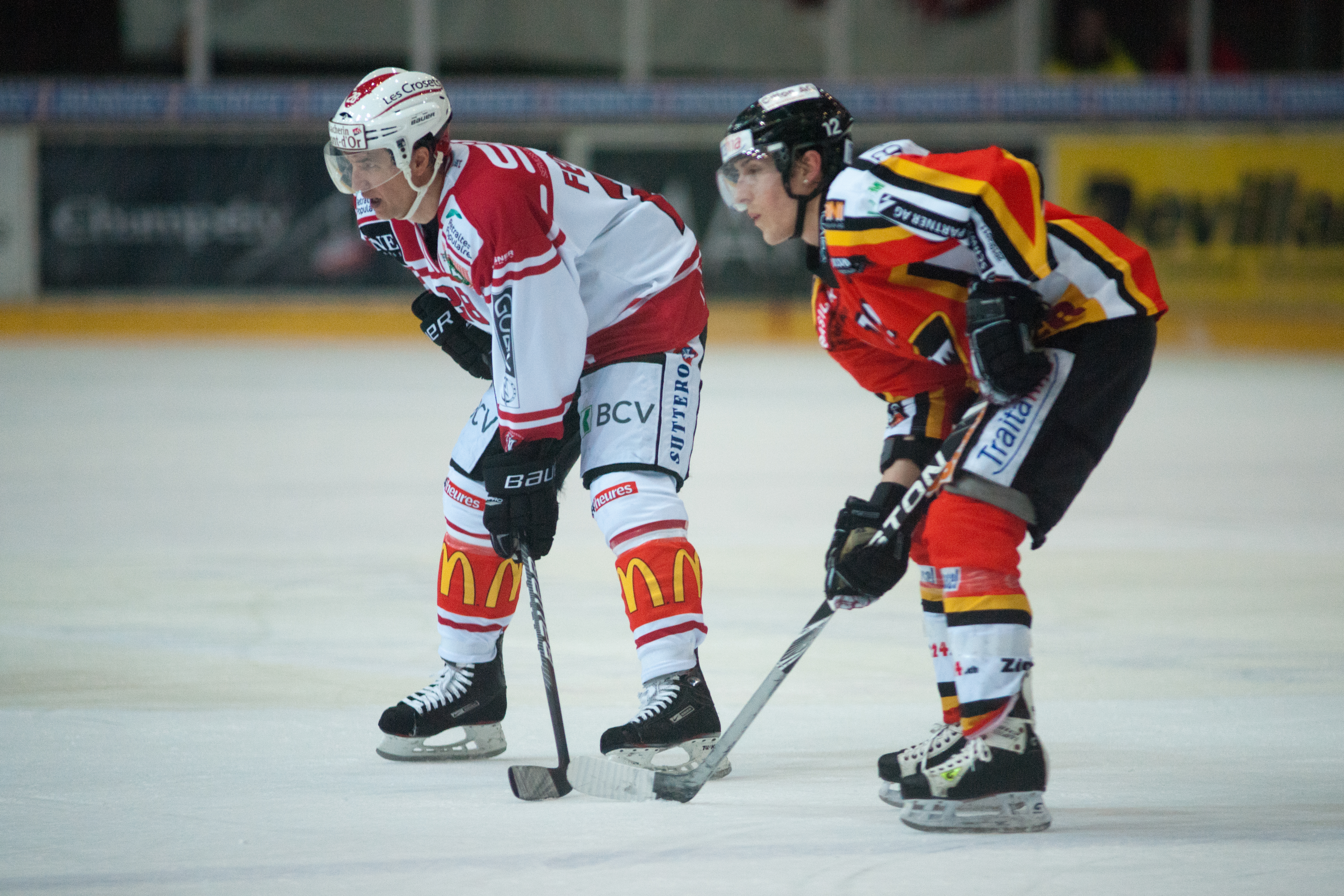 The making of this document was supported by Wikimedia CH. (Submit your project!) For all the files concerned, please see the category Supported by Wikimedia CH. Lausanne HC vs. EHC Basel, 11th March 2011